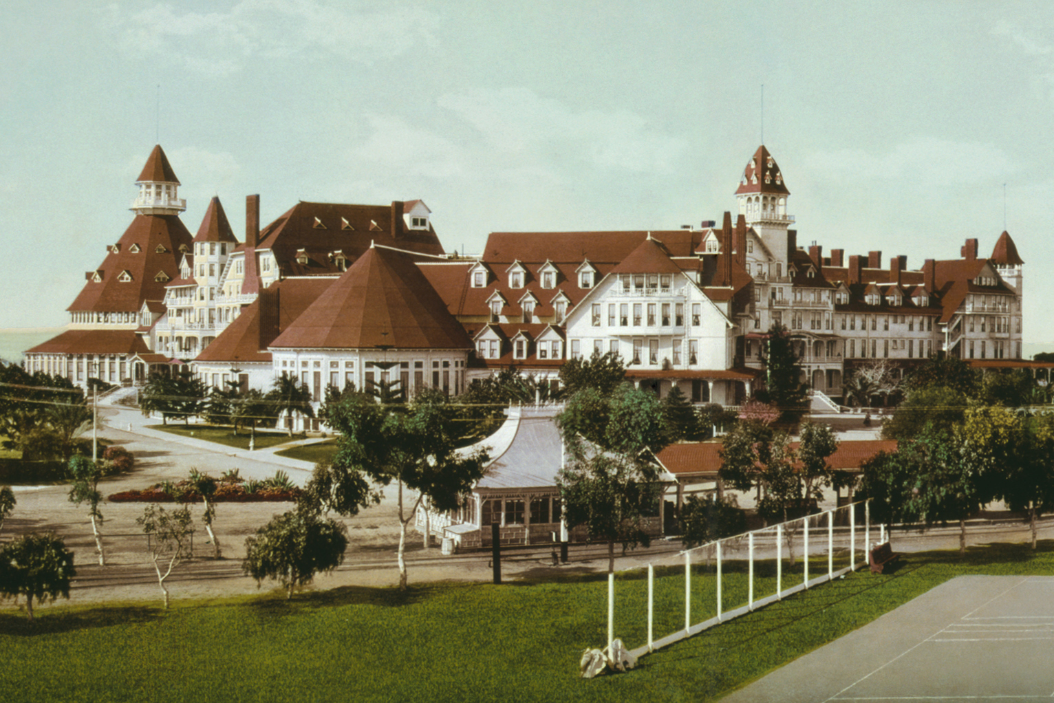 Hotel del Coronado, Coronado Beach, California